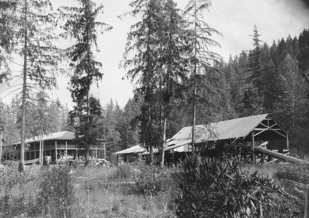 Original Collection: Gerald W. Williams Collection Item Number: WilliamsG:SWV McCredie Springs 2 Restrictions: Please contact the OSU Archives for permissions forms or information on how to cite our collections. Click to view our digital collections. You can find this image by searching for the item number. Click to view Oregon State University's other digital collections. We're happy for you to share this digital image within the spirit of The Commons; however, certain restrictions on high quality reproductions of the original physical version may apply. To read more about what “no known restrictions” means, please visit the OSU Archives website.